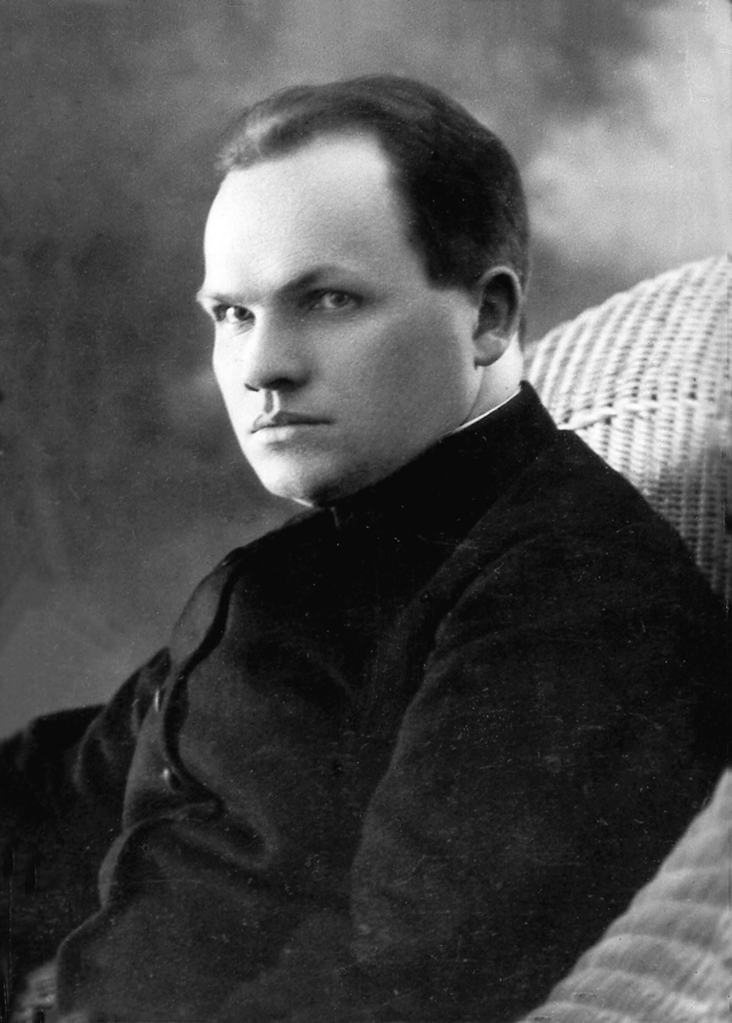 Fr. A. Leszczewicz